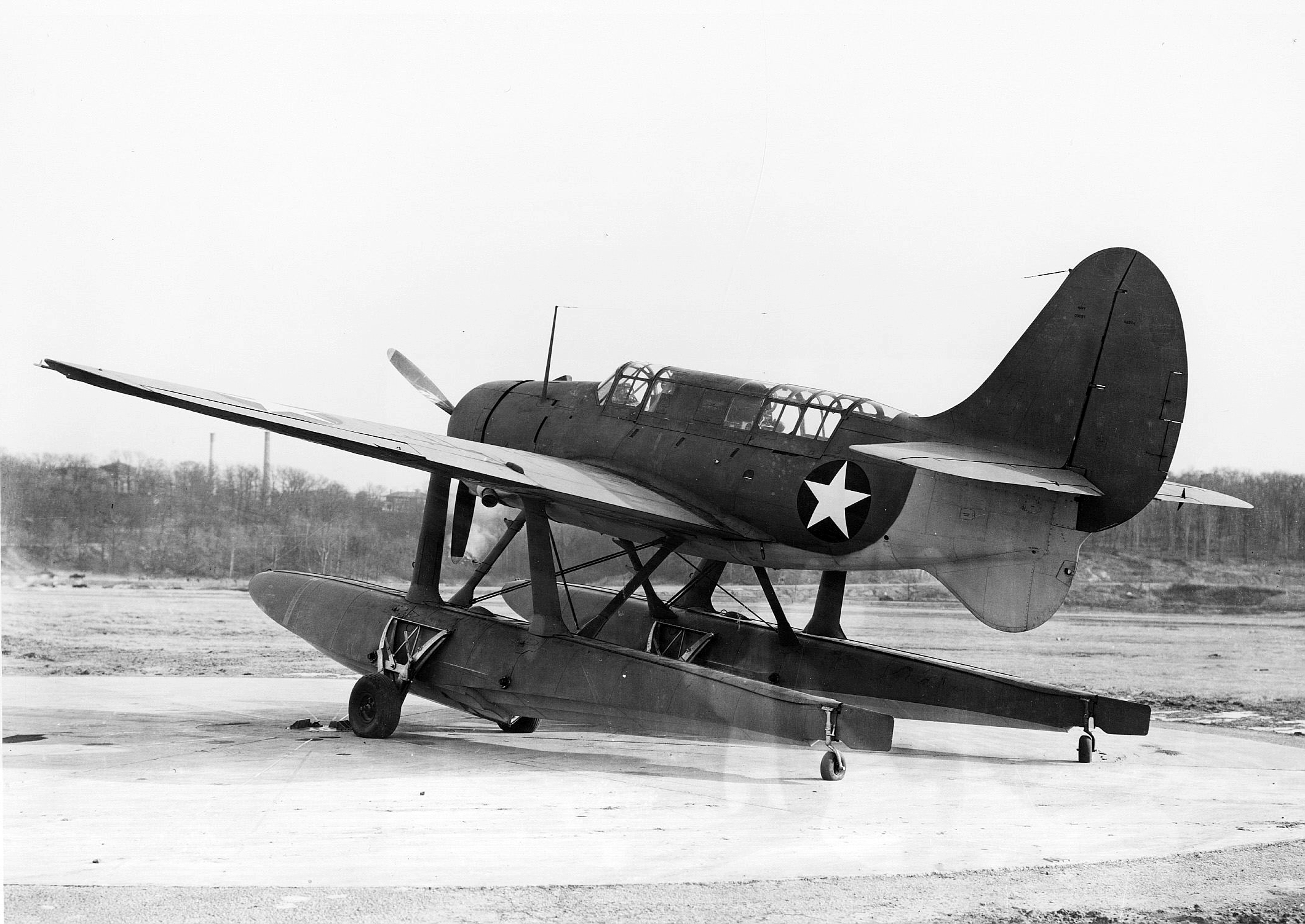 The single U.S. Navy Curtiss XSB2C-2 floatplane (BuNo 00005) pictured on the ground at an unidentified location. Note the hydrovane attached to the fuselage below the tail.